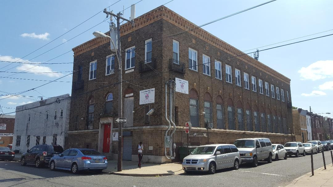 The former Jewish Educational Center + Stiffel Senior Center at 604 W Porter St, Philadelphia, Pennsylvania on September 1, 2019.